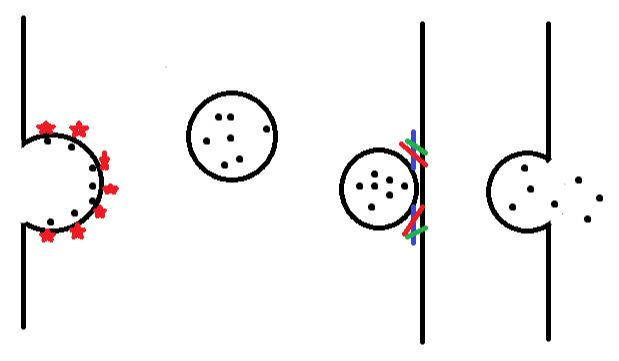 Here a vesicle is shown in various stages of its life. The vesicle first gathers coat proteins and the desired cargo. Once a sufficient amount of coat proteins gather they cause the vesicle to bud outwards and break off into the cytoplasm. The vesicle is moved towards its target and once close enough docks and fuses to the target.